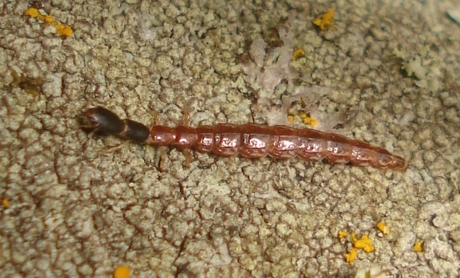 Raphidia